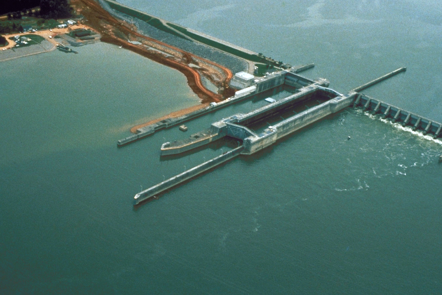 Nickajack Lock and Dam on the Tennessee River near Jasper, Tennessee, USA. The lock is operated and maintained by the U.S. Army Corps of Engineers.